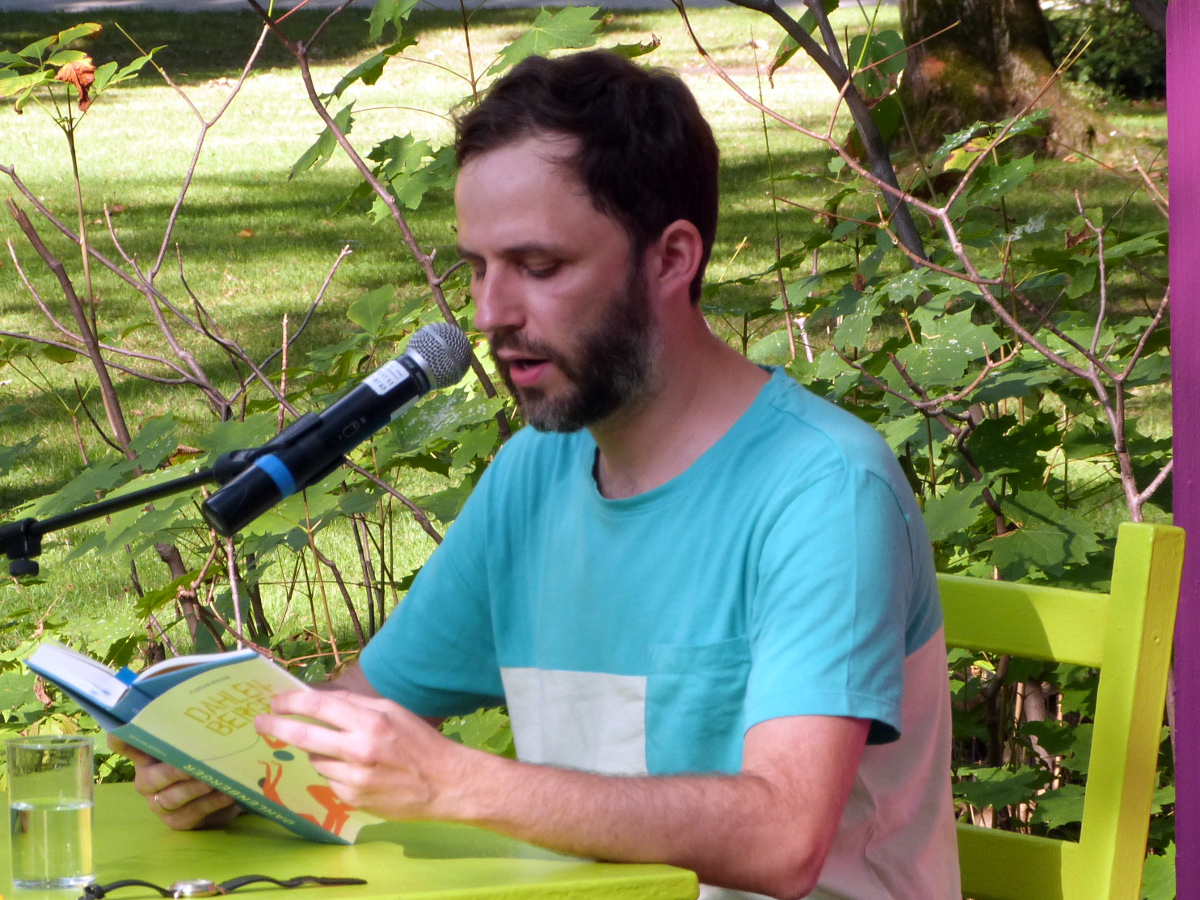 German writer Florian Wacker reading at the Erlanger Poetenfest 2015